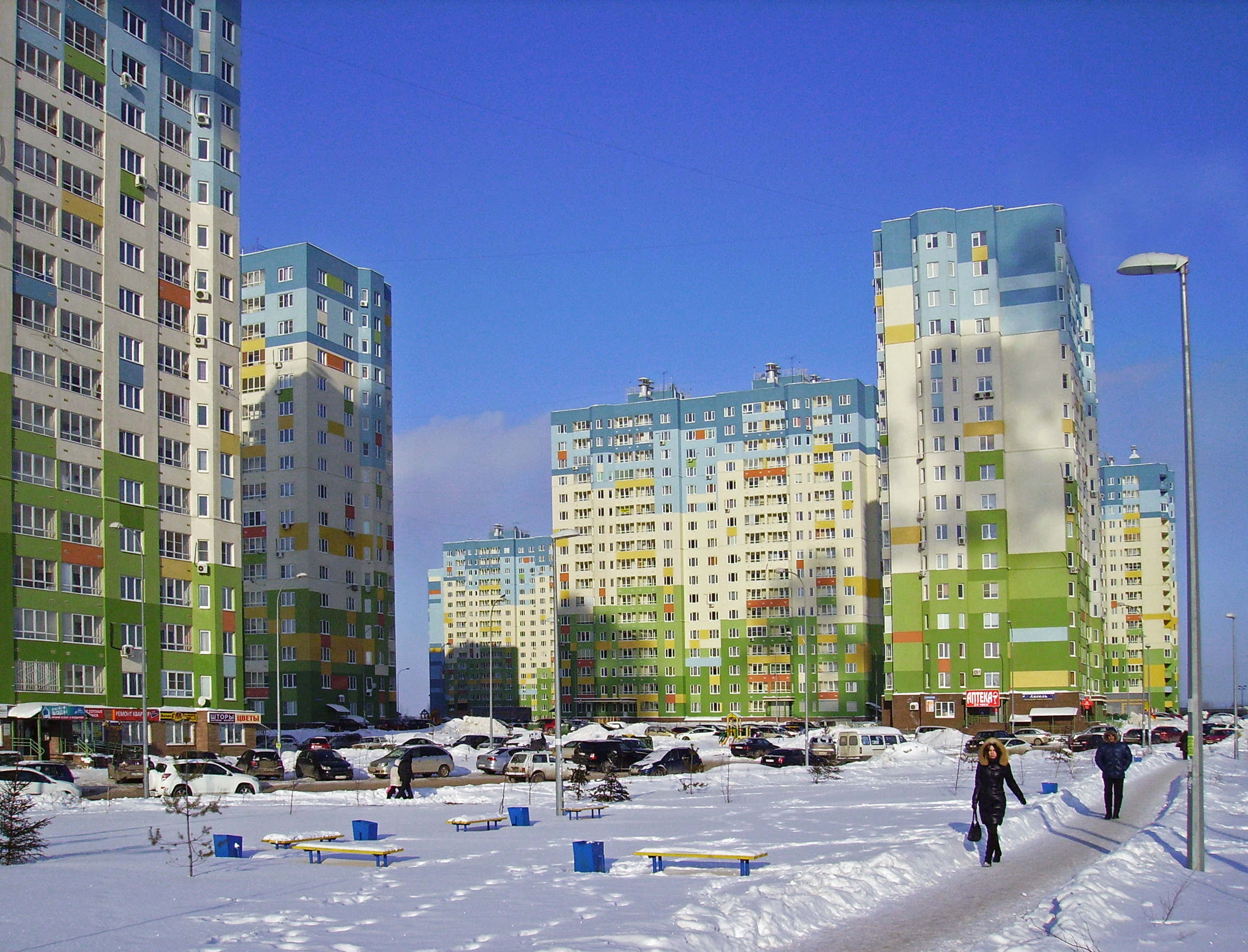 Nizhny Novgorod. Winter day in The Sed'moye Nebo (Seventh Heaven) Microraion